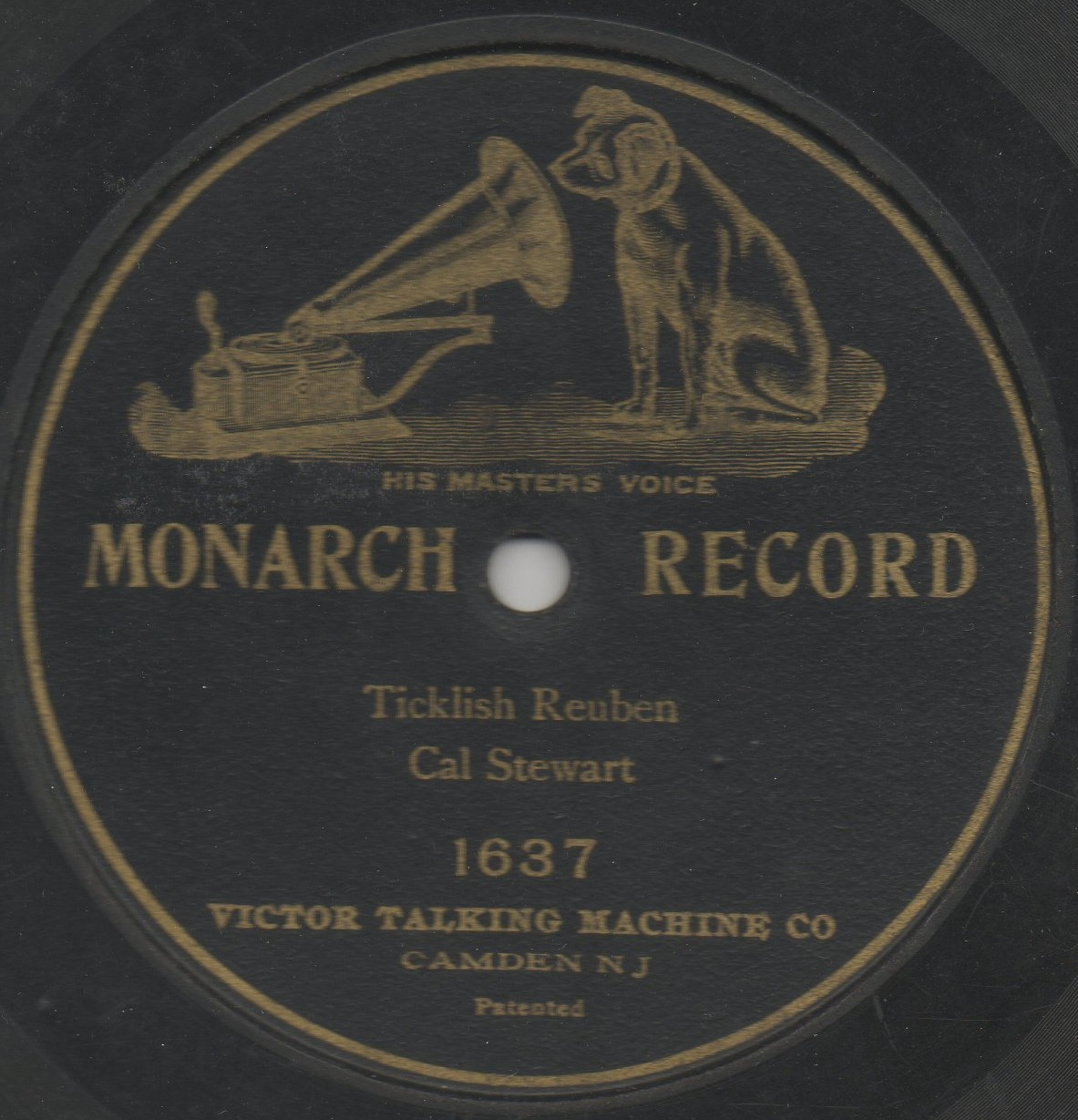 Example of an early "Monarch" label produced by the Victor Talking Machine Company. This label was used on 10-inch records manufactured between 1903 and 1905. This particular record is catalog number 1637 featuring Cal Stewart performing "Ticklish Reuben", which was recorded on 22 August 1902.